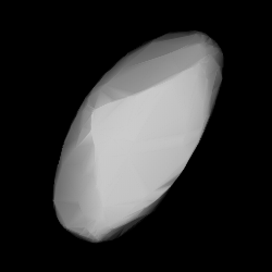 3D convex shape model of 2839 Annette, computed using light curve inversion techniques. J. Hanuš, J. Ďurech, M. Brož, B. D. Warner (June 2011). "A study of asteroid pole-latitude distribution based on an extended set of shape models derived by the lightcurve inversion method". Astronomy and Astrophysics 530: A134. ISSN 0004-6361. arXiv